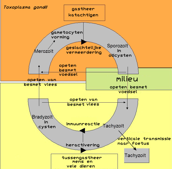 toxoplasma gondii life cycle, with dutch txt